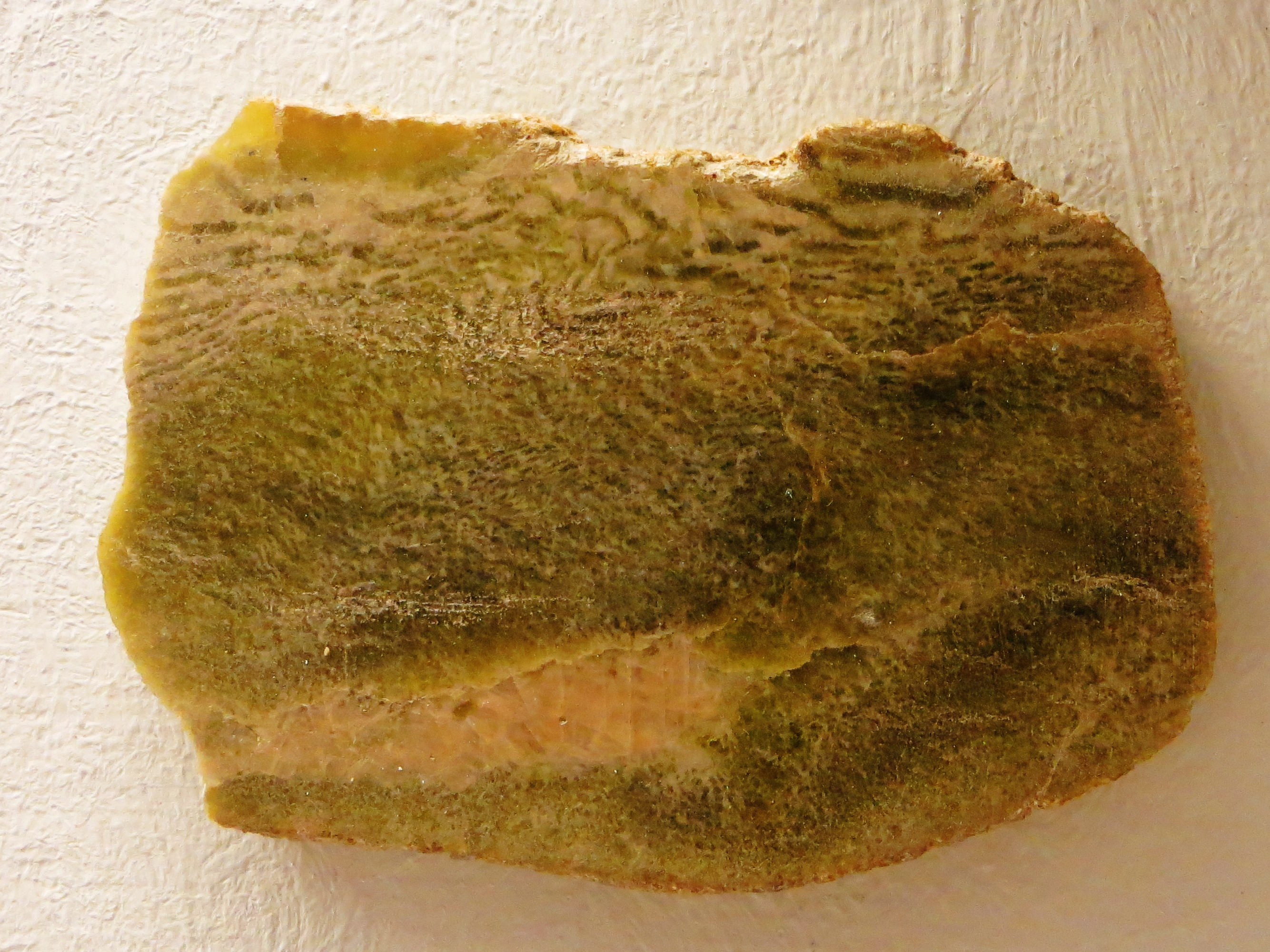 Fossil of Eozoon. Took the picture at Museum of Paleontology, Tubingen